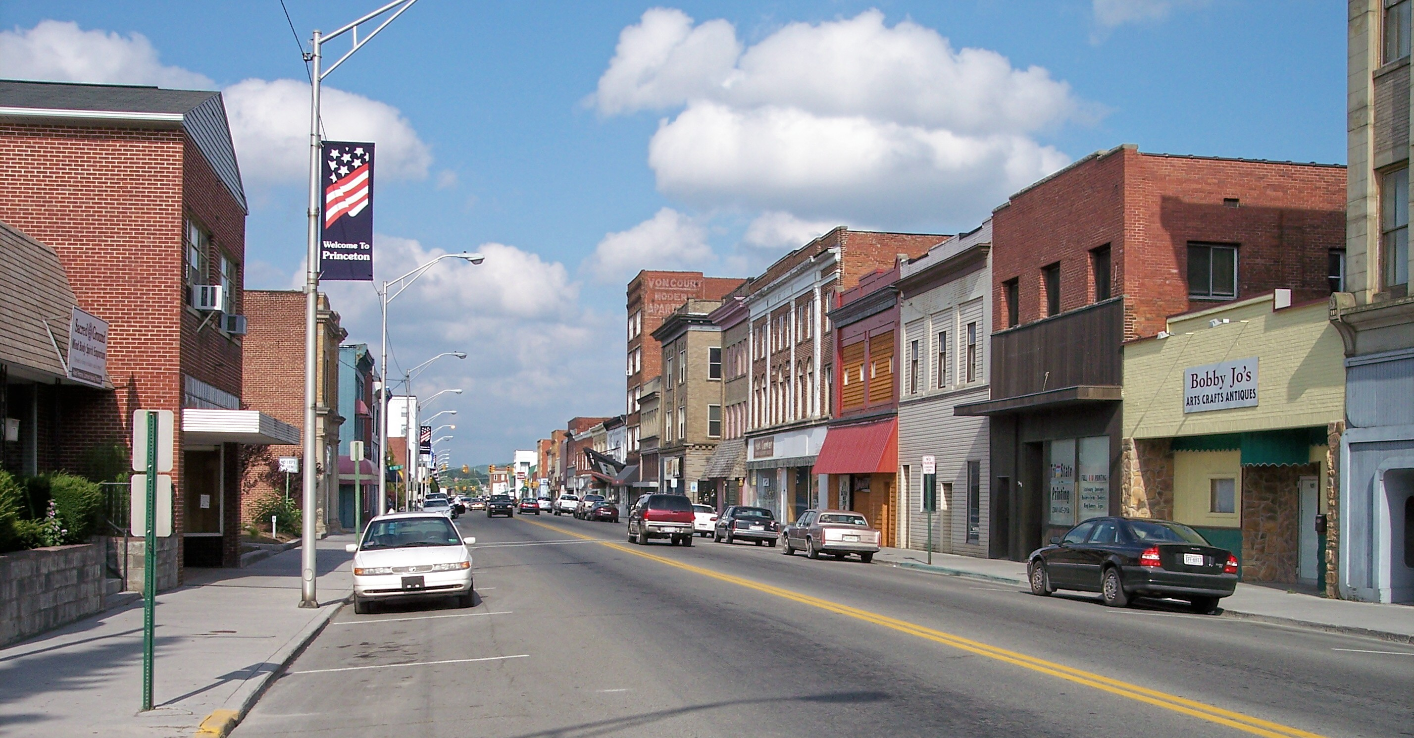 Mercer Street (West Virginia Route 20) in downtown Princeton, West Virginia.